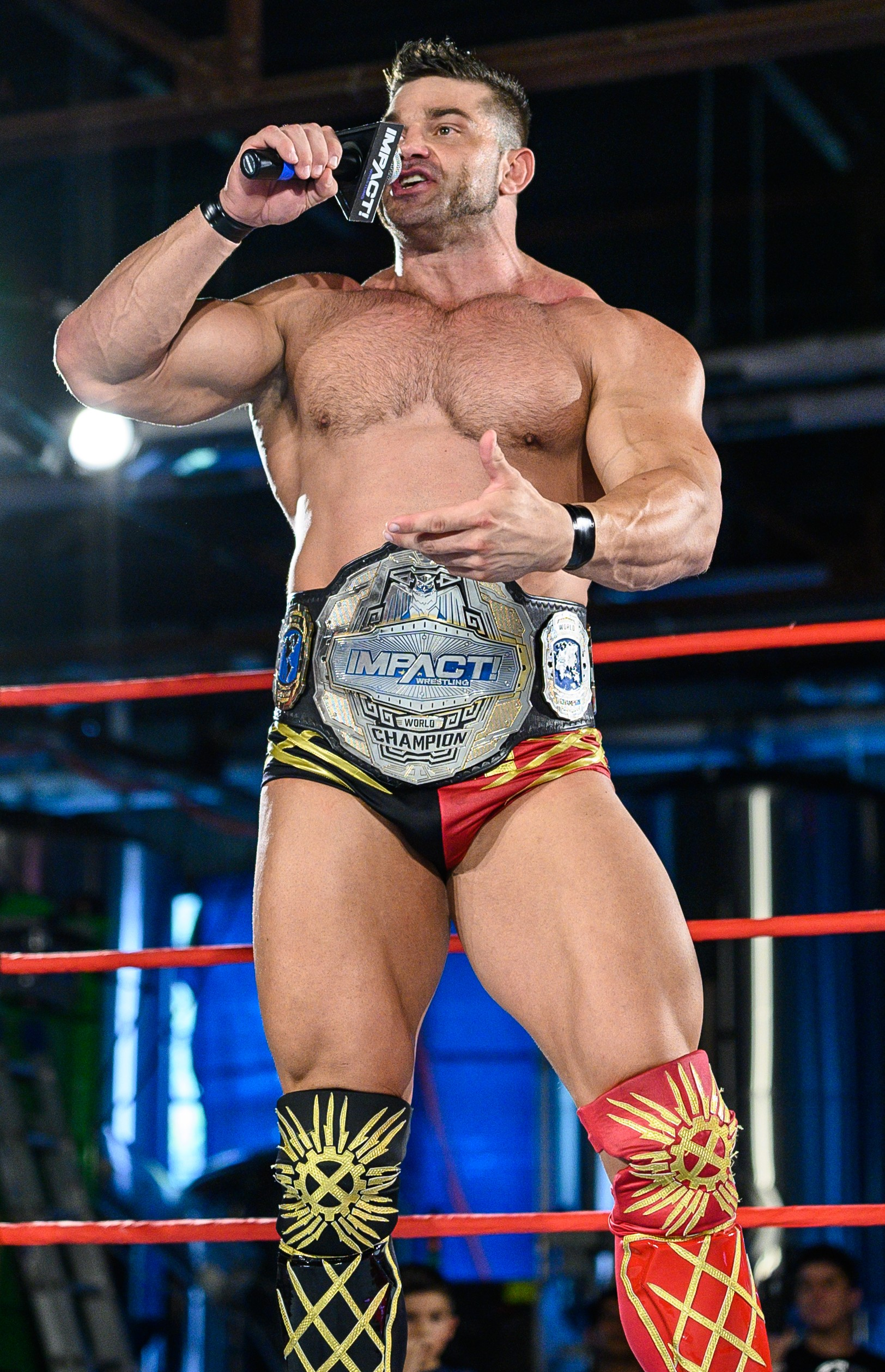 RCW & IMPACT Wrestling present Bash at the Brewery on July 5, 2019. Aired on IMPACT Twitch and IMPACT Plus from Freetail Brewery in San Antonio.